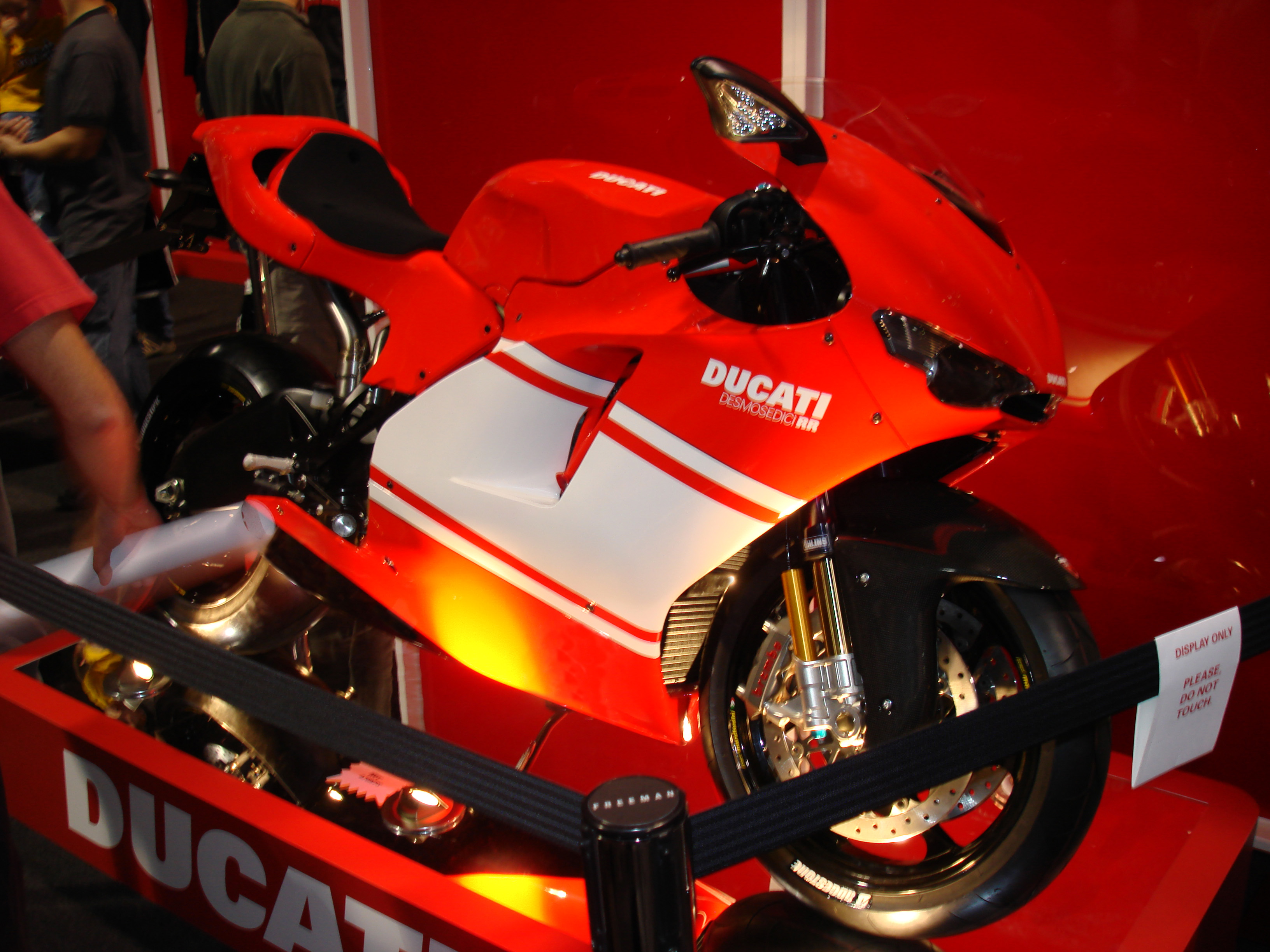 2007 Ducati Desmosedici RR on display at the 2006 International Motorcycle Show in Long Beach, CA. Camera used was a Sony Cyber-shot DSC-W100.